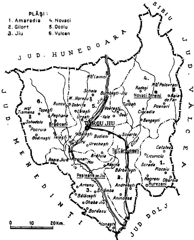 Map of Gorj interwar county, Kingdom of Romania (1938).